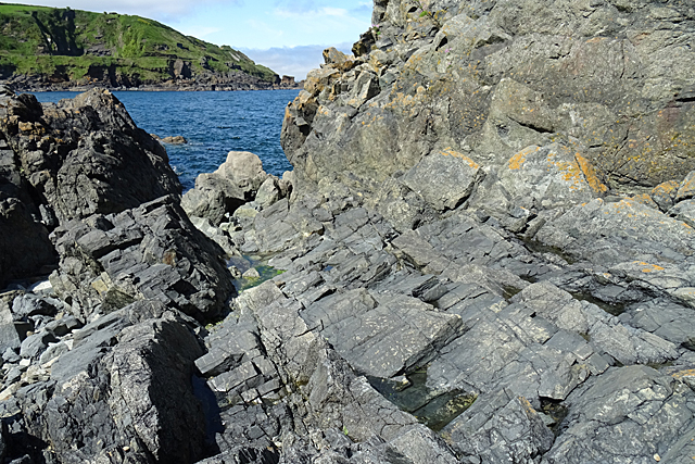 Sheeted dykes have taken form in the crack of continental crust.